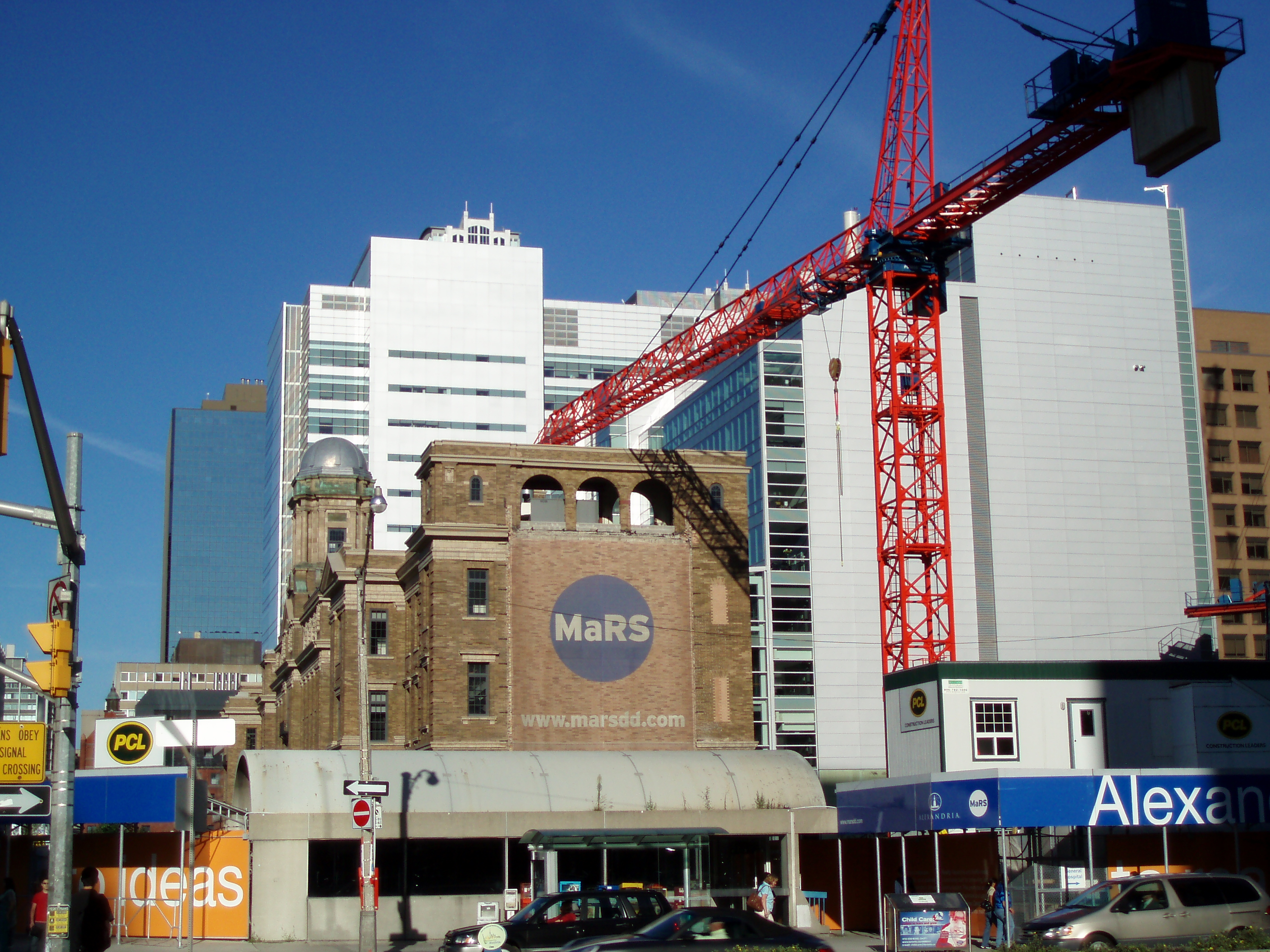 MaRS Phase 2 Construction in August 2008.